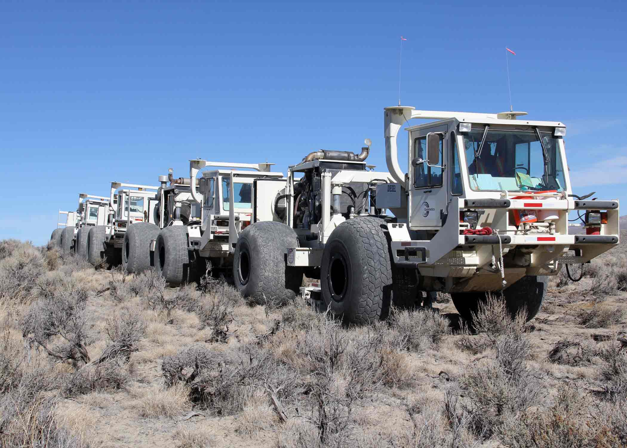 These vibration trucks travel along designated north/south routes applying hydraulic pressure at set intervals. These seismic waves are then picked up by receiver points placed along east/west routes within the project area and create a 3-D image of the underground for possible oil and gas deposits. The trucks are fitted with 'sand' tires to lessen their impact to the environment.